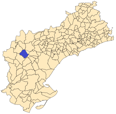 Corberá d'Ebre